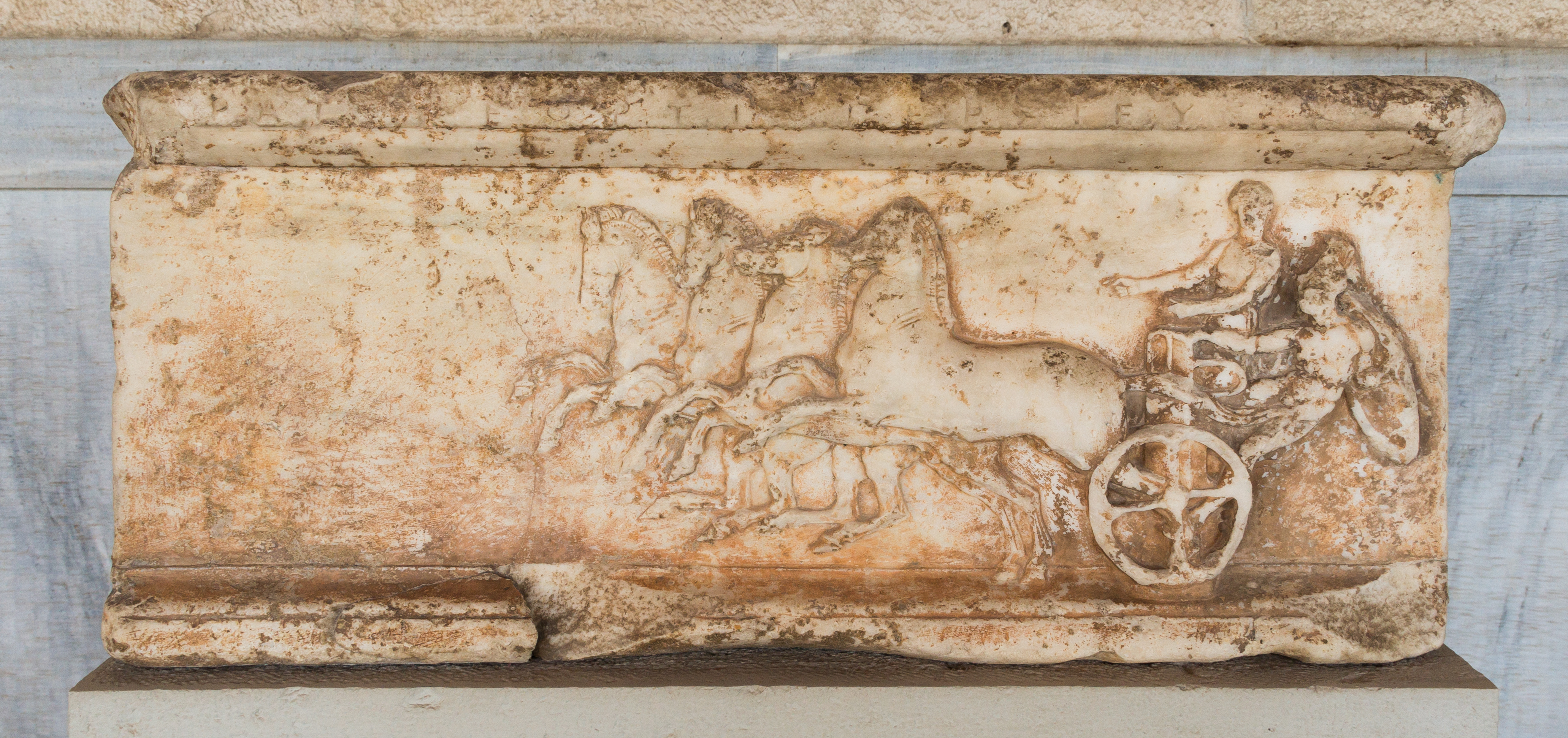 Pedestal of the monument dedicated to the victory of Krates in the apovatis race at the Panathenaic Games. A fully armed soldier jumps on and off a moving chariot. Relief. Marble. 4th c. BCE.Athens, Greece.